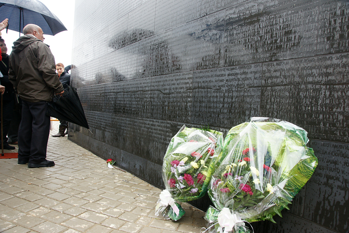 Flower bouquets at the Park of Memory in Sartaguda, Navarre